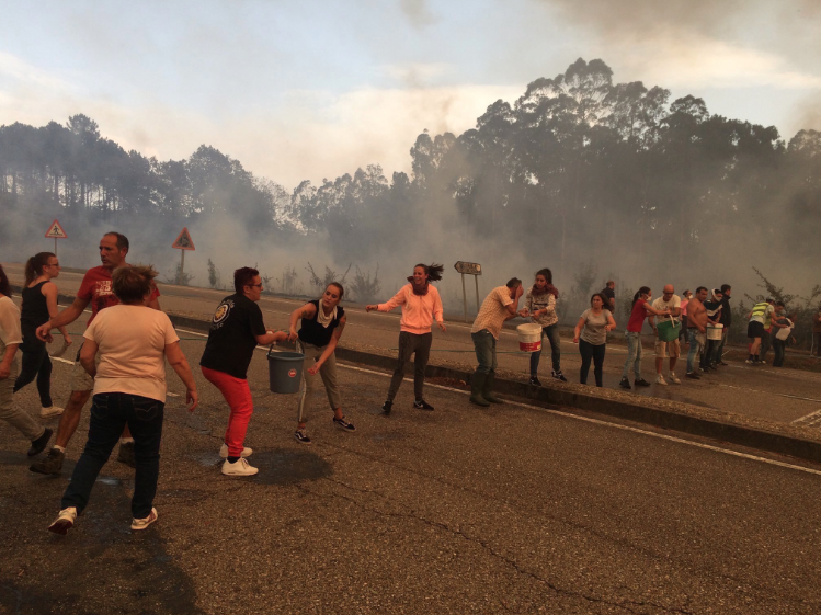 Residents of Valadares, Vigo, Pontevedra, make a human chain to transport water and put out a fire that threatens a nearby school.